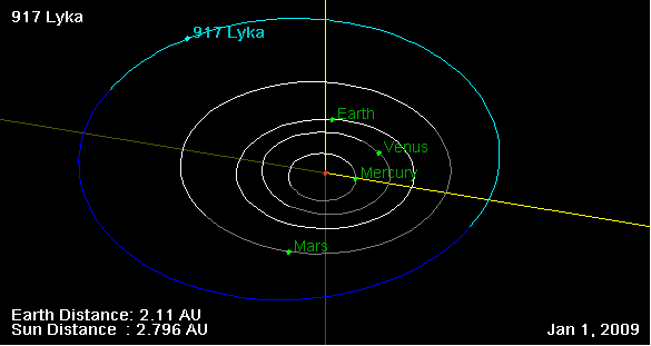 917 Lyka orbit, and his position on 01 Jan 2009 (NASA Orbit Viewer applet)